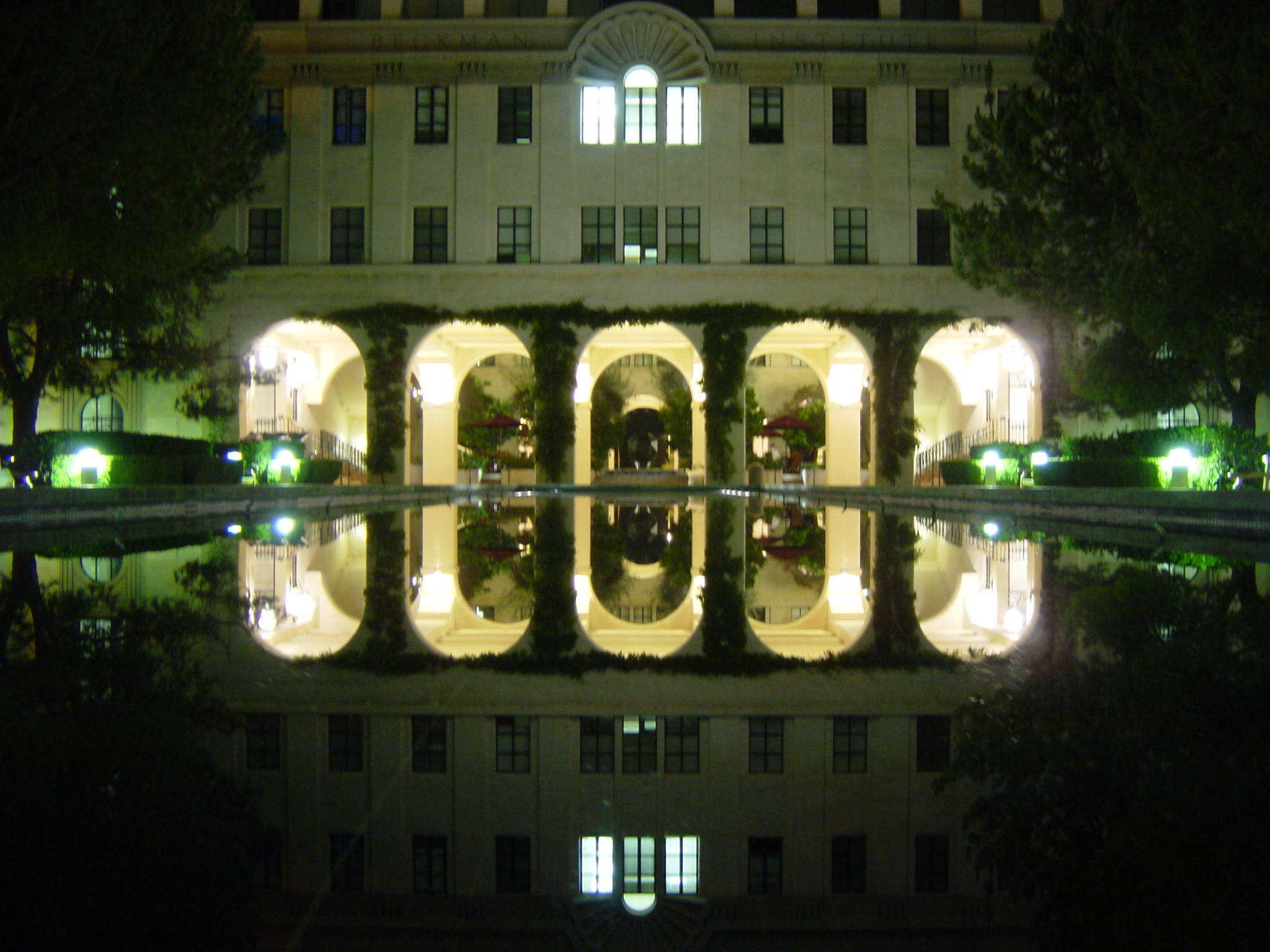 The reflecting pool is actually a fountain that didn't happen to be on. As with many of the fountains at Caltech, this one has a theme: the many arching jets connect to patterns set in the tile to form a double helix. Taken with a Sony DSC-P7 resting directly on the concrete lip of the pool. I let the camera do its night-shot mode where it took a second exposure with the shutter closed to subtract off the hot pixels. This is otherwise straight off the camera without any further post processing. DSC-P7, 2 sec, f/2.8, ISO 100